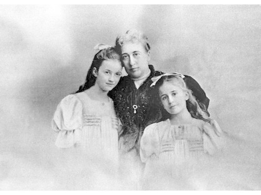 Margarethe Krupp with her daughters Barbara and Bertha